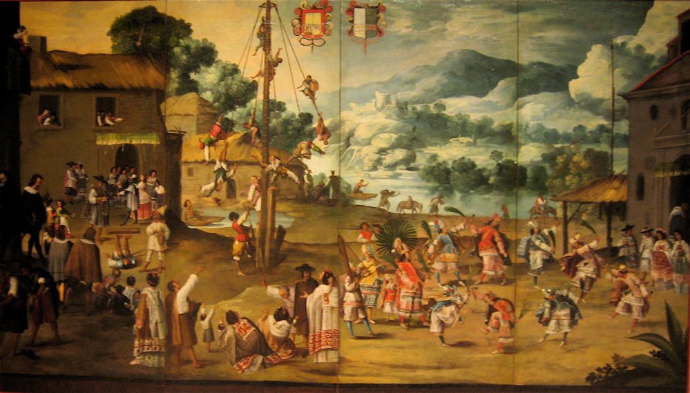 Folding Screen with Indian Wedding and Flying Pole (Biombo con desposorio indígena y palo volador), circa 1690 Painting, Oil on canvas, Overall: 66 x 120 in. (167.64 x 304.8 cm) Purchased with funds provided by the Bernard and Edith Lewin Collection of Mexican Art Deaccession Fund (M.2005.54 Wikipedia Loves Art at the Los Angeles County Museum of Art This photo of item # M.2005.54 at the Los Angeles County Museum of Art was contributed under the team name "artifacts" as part of the Wikipedia Loves Art project in February 2009. Los Angeles County Museum of Art The original photograph on Flickr was taken by joel.parham—please add a comment to the original Flickr page whenever a use has been made on Wikipedia or another project. Project galleries on Flickr: this institution, this team Folding Screen with Indian Wedding and Flying Pole (Biombo con desposorio indígena y palo volador), circa 1690 Painting, Oil on canvas, Overall: 66 x 120 in. (167.64 x 304.8 cm) Purchased with funds provided by the Bernard and Edith Lewin Collection of Mexican Art Deaccession Fund (M.2005.54 Wikipedia Loves Art at the Los Angeles County Museum of Art This photo of item # M.2005.54 at the Los Angeles County Museum of Art was contributed under the team name "artifacts" as part of the Wikipedia Loves Art project in February 2009. Los Angeles County Museum of Art The original photograph on Flickr was taken by joel.parham—please add a comment to the original Flickr page whenever a use has been made on Wikipedia or another project. Project galleries on Flickr: this institution, this team